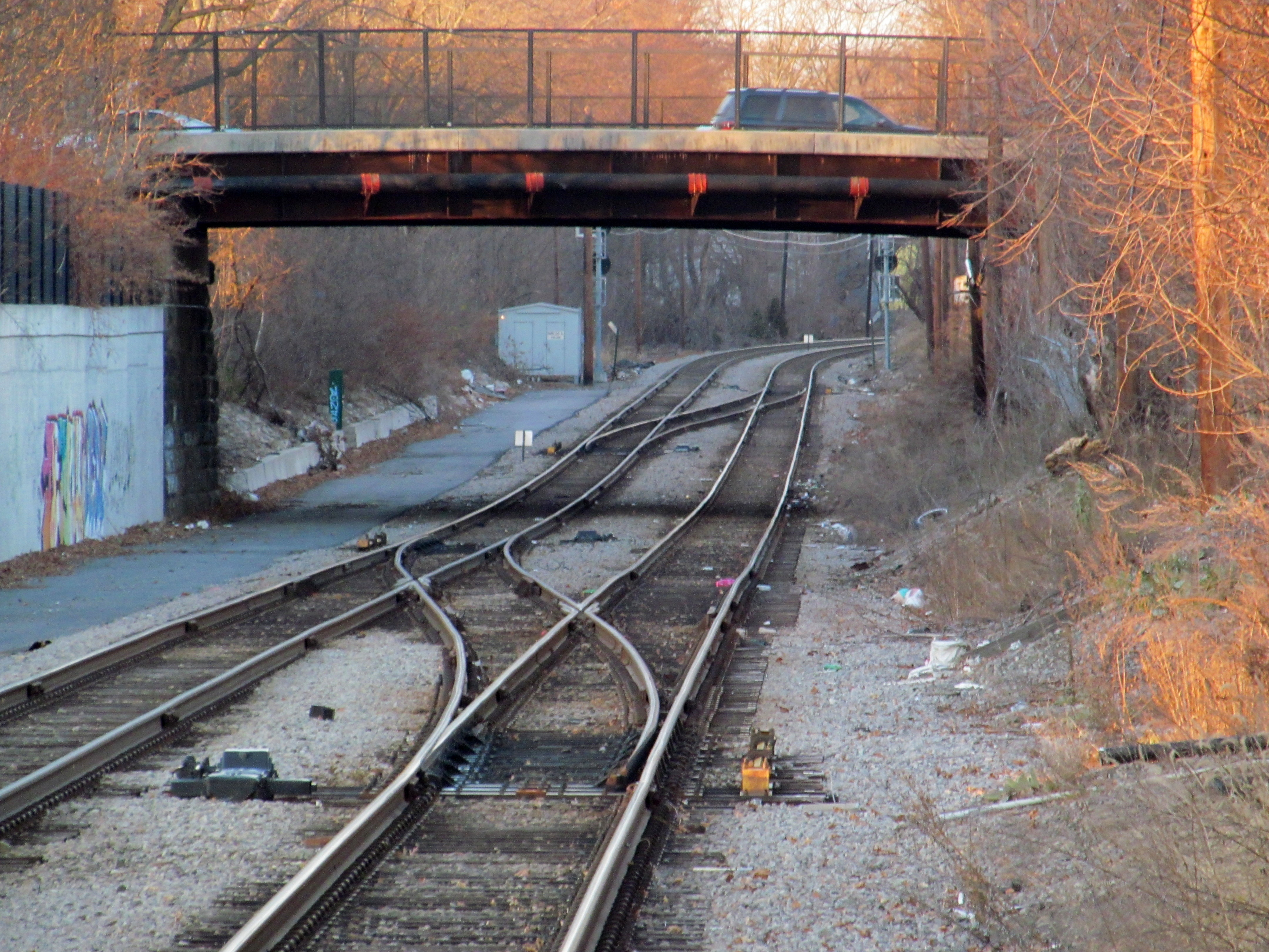 As part of the Fairmount Line Improvement Project, PARK interlocking was installed around Park Street and Harvard Street in 2007-2008. This view is from the inbound platform at Talbot Ave station.